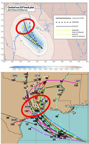 (Top): WRF model simulation of Hurricane Rita tracks. The model resolution is 30km. The colored field shows the lowest sea-level pressure (SLP) recorded during the last 27 hours of a 54 hour control simulation of Rita using LFO (5 class) microphysics and the Kain-Fritsch (KF) convective scheme. The superposed black line traces the model hurricane, which strikes Houston. Also shown are tracks of minimum SLP for runs using the Kessler (warm rain) scheme, the WSM3 simple ice scheme (with the Betts-Miller-Jancic convective scheme), the Kessler with reduced rain fallspeed, and WSM3 with enhanced ice fallspeed. (Bottom): The spread of NHC multi-model ensemble forecast at 06 UTC, 22 September. Note a similar ensemble spread was obtained from a single model simply by varying the model microphysics and convective schemes. Image from Jonathan Vigh, Colorado State University.